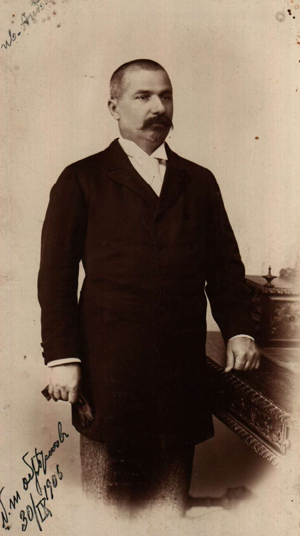 Nikola Obretenov (1849-1939)